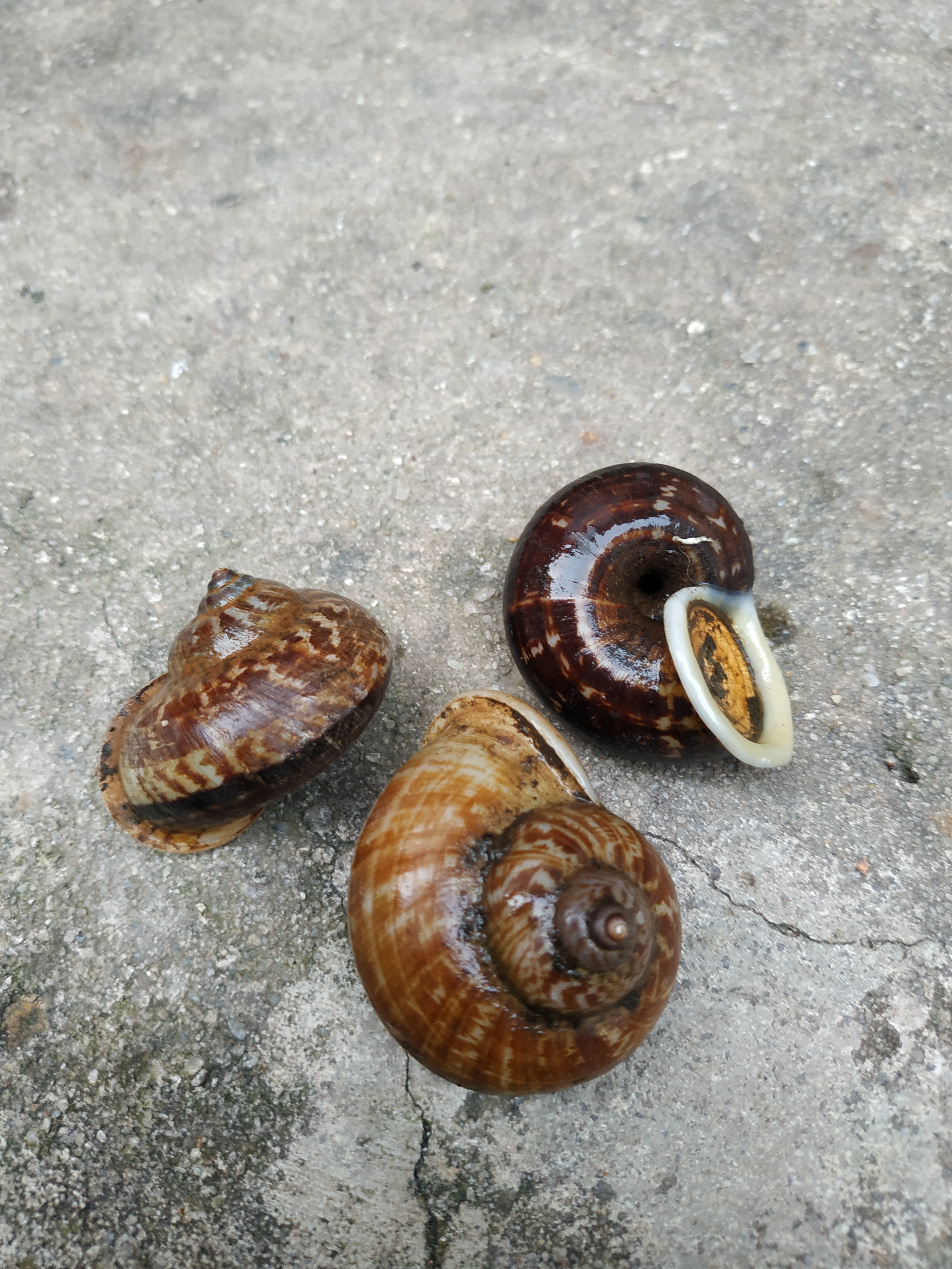 Snail